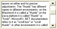 Text box with vertical scroll bar.